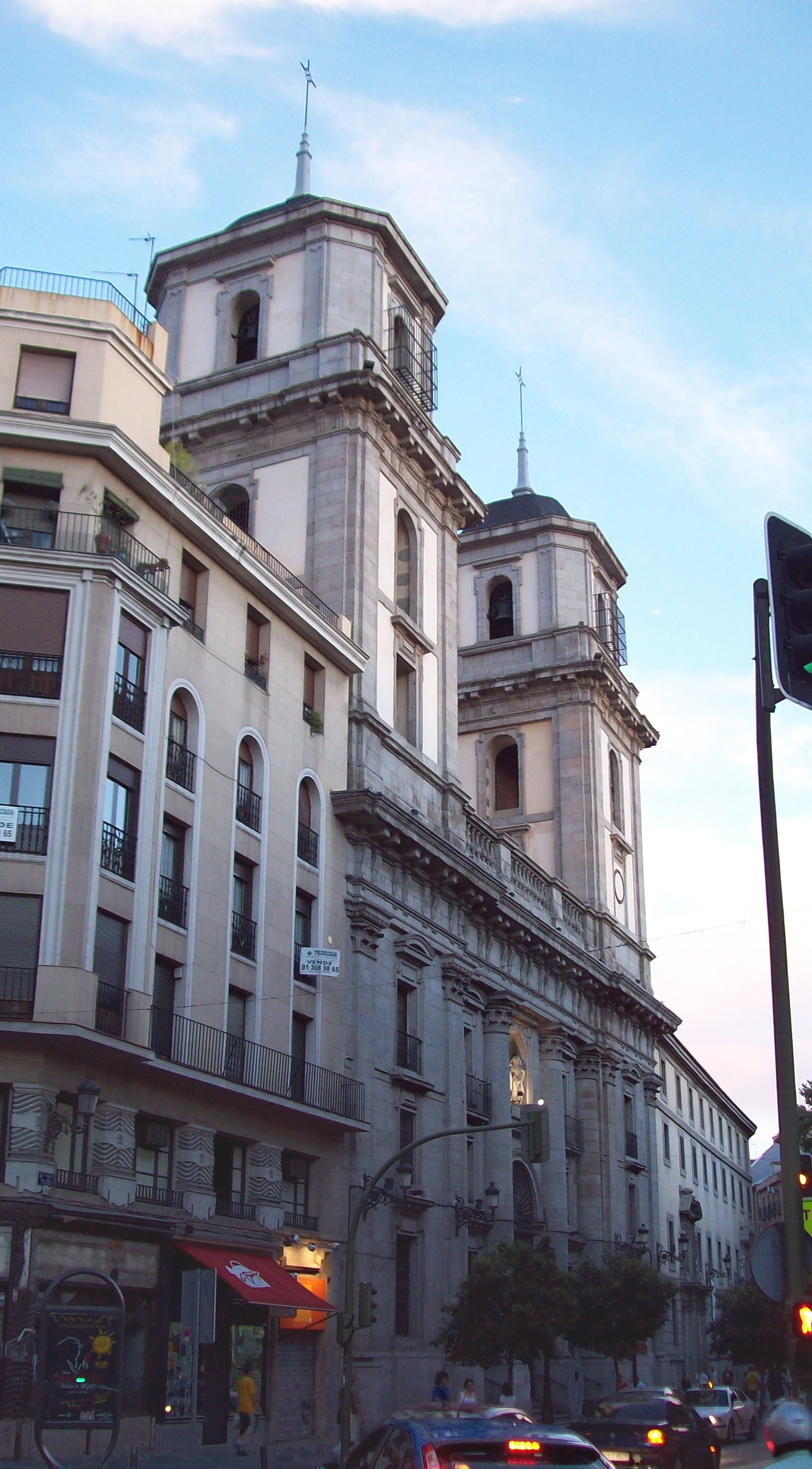 Colegiata de San Isidro ("Collegiate Church of St. Isidore") in Madrid (Spain).